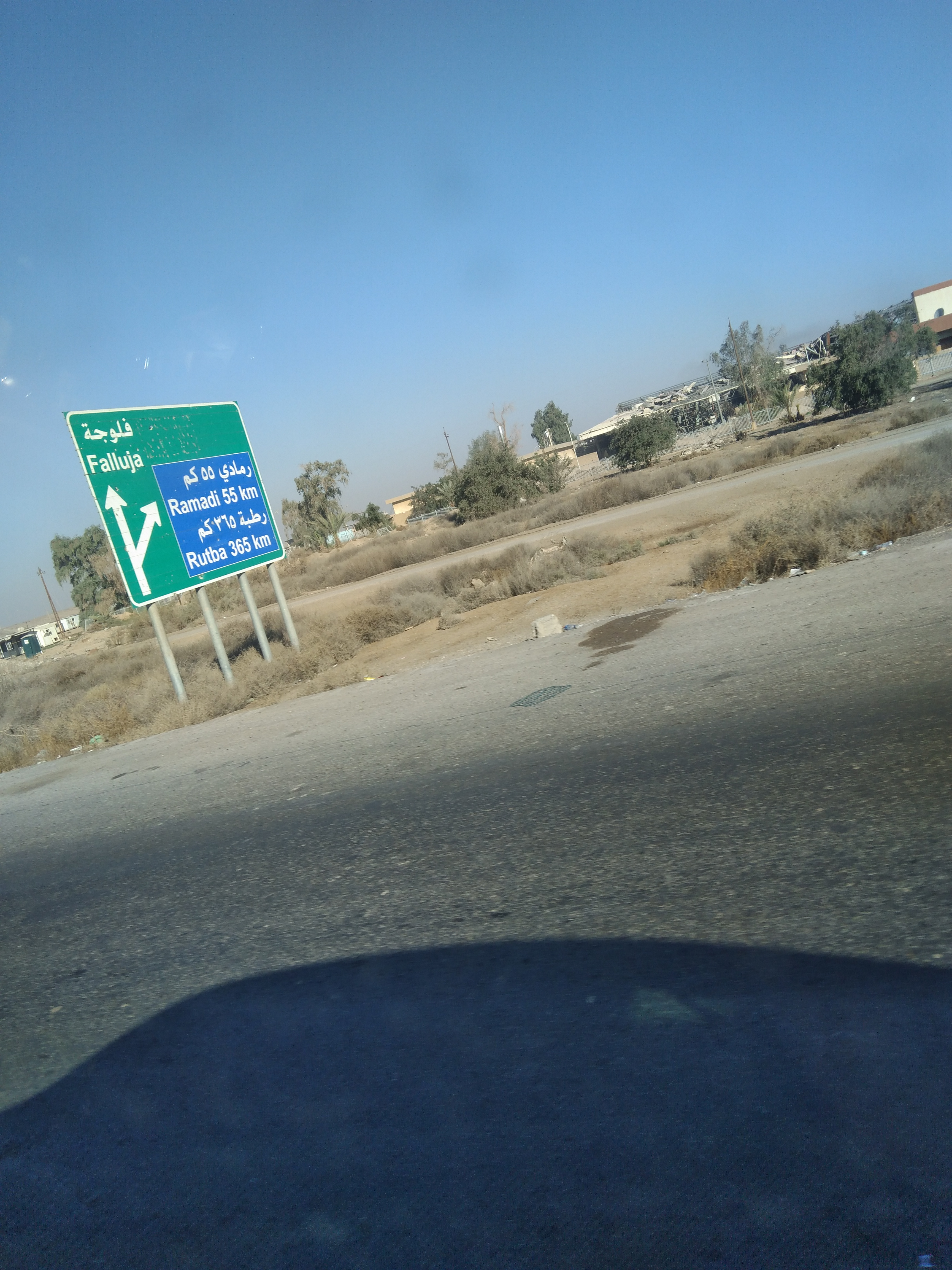 Road to Fallujah, Ramadi and Ratbah